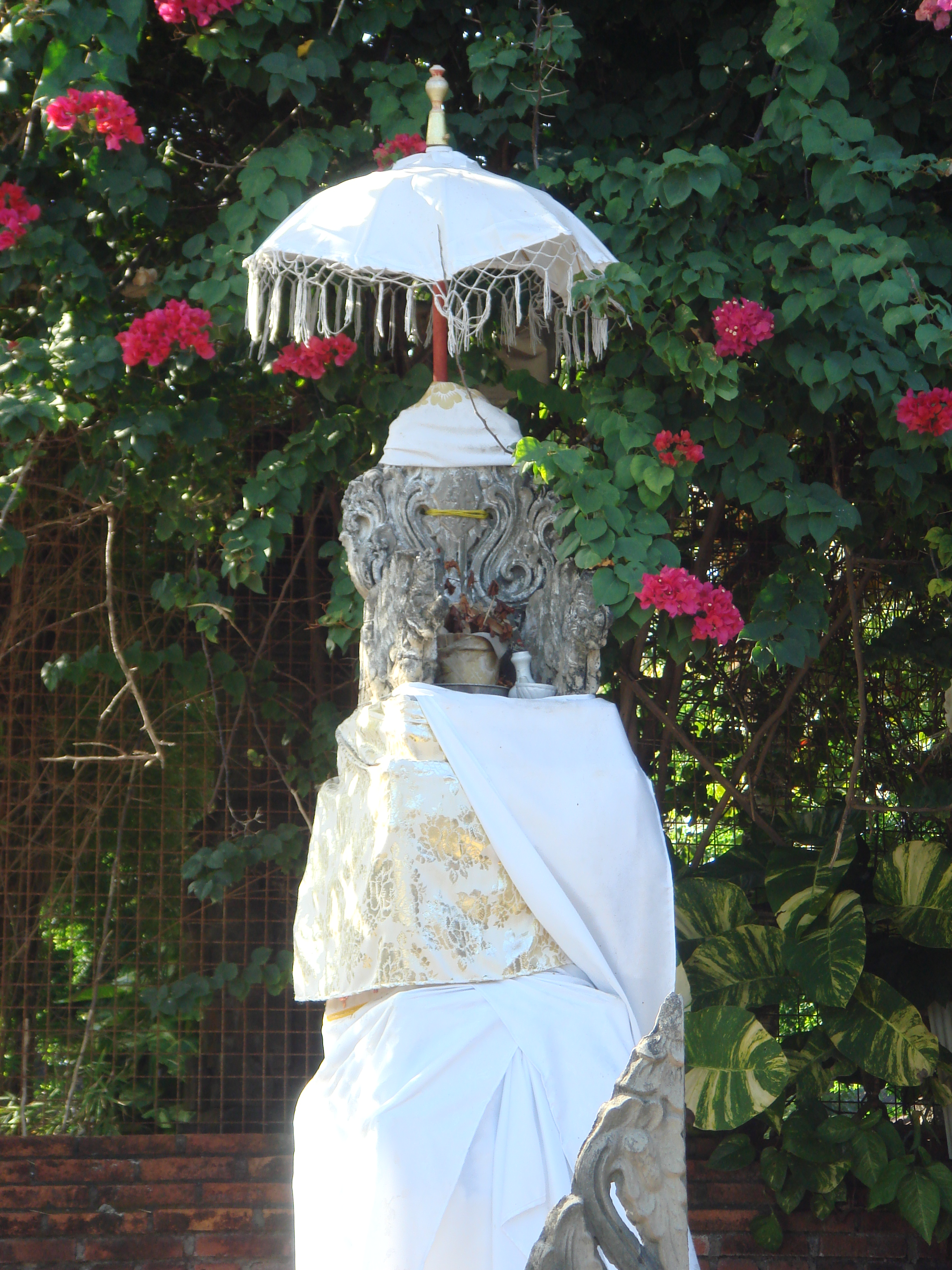 Empty_throne_to_the_Supreme_God_Bali